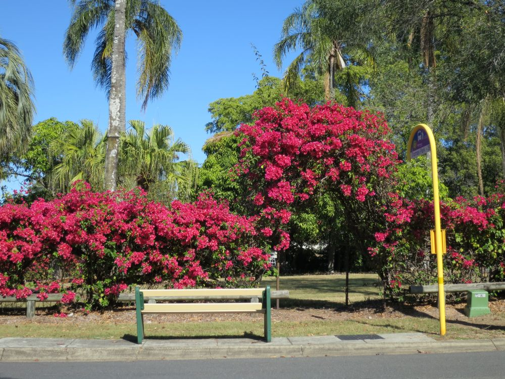 Thomas Park, north boundary (2014) with bus stop